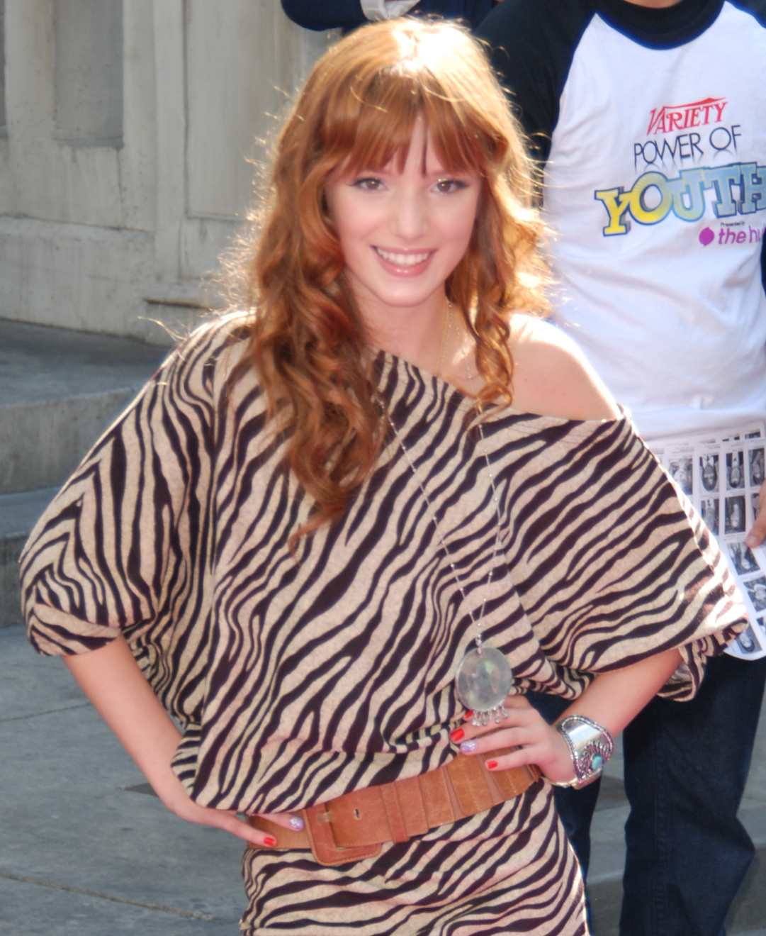 Bella Thorne, american actress (picture without watermark)